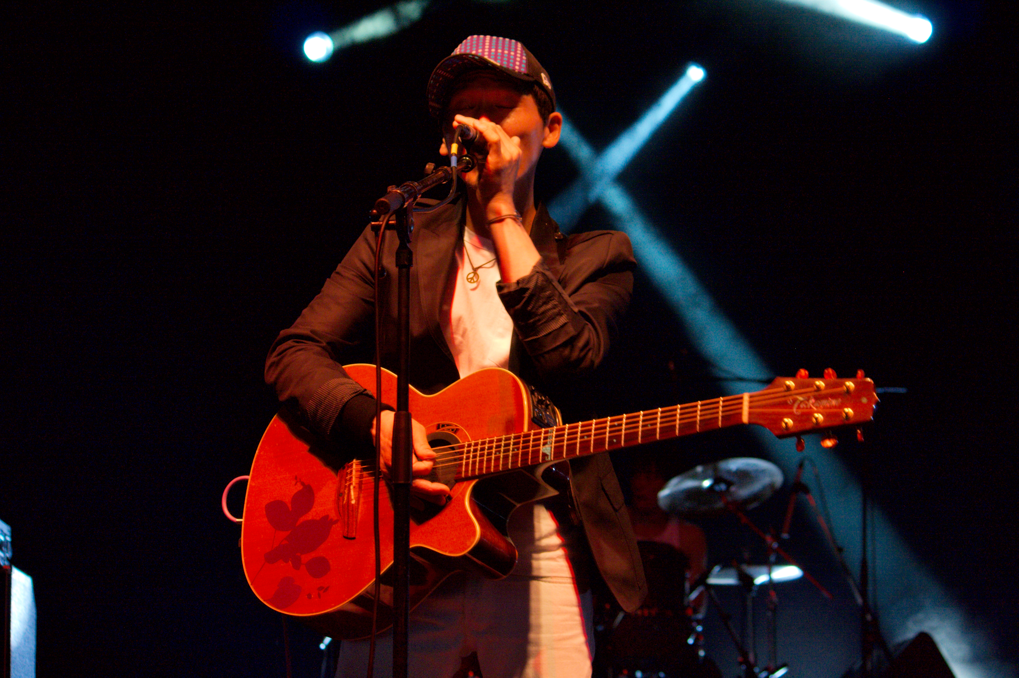 Lost Color People live at Japan Expo 2008 (Paris, France).